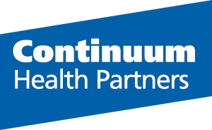 Logo of the now defunct Continuum Health Partners in New York City